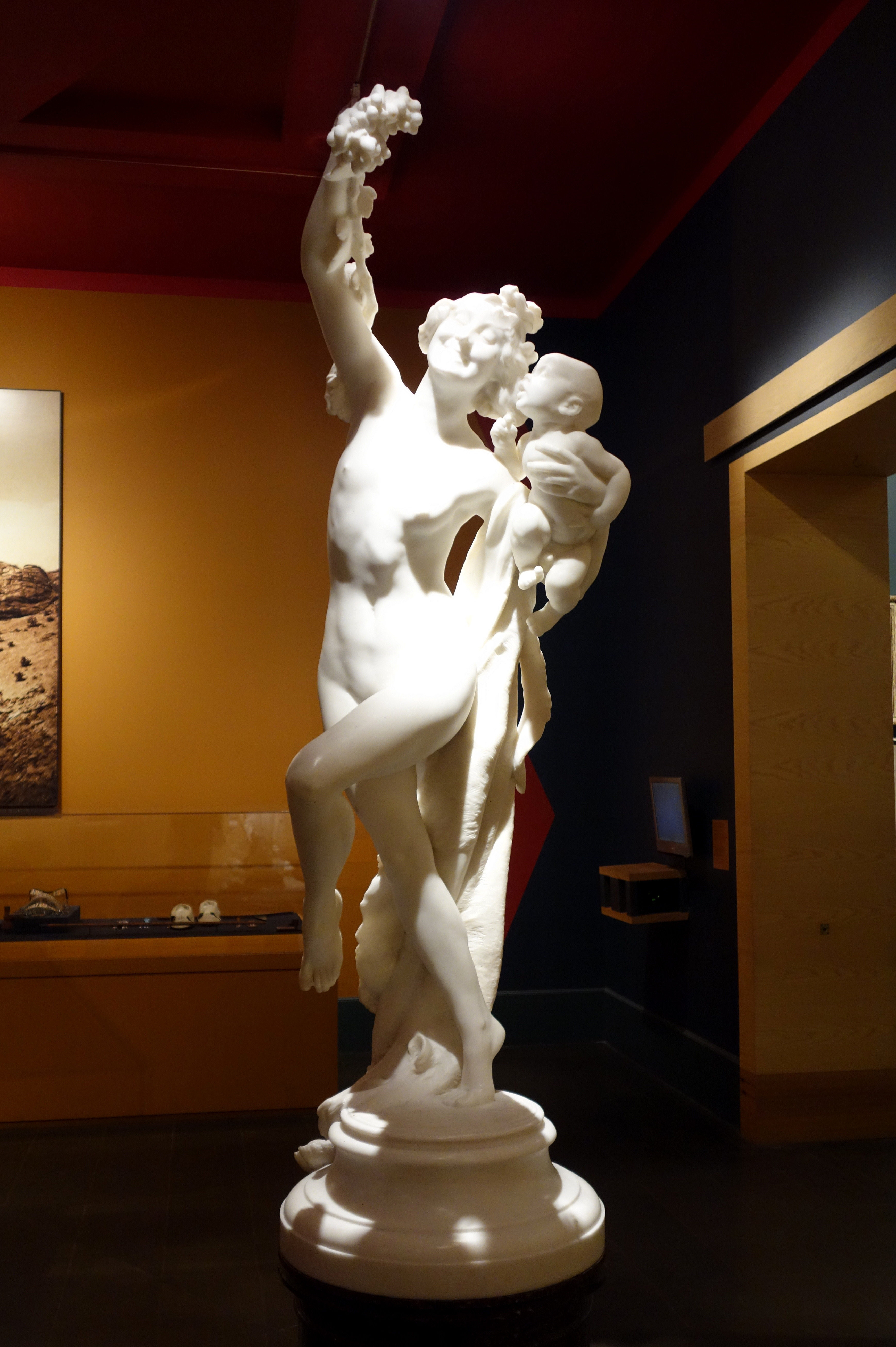 Exhibit in the Brooklyn Museum - Brooklyn, New York, USA. This artwork is in the public domain because the artist died more than 70 years ago.